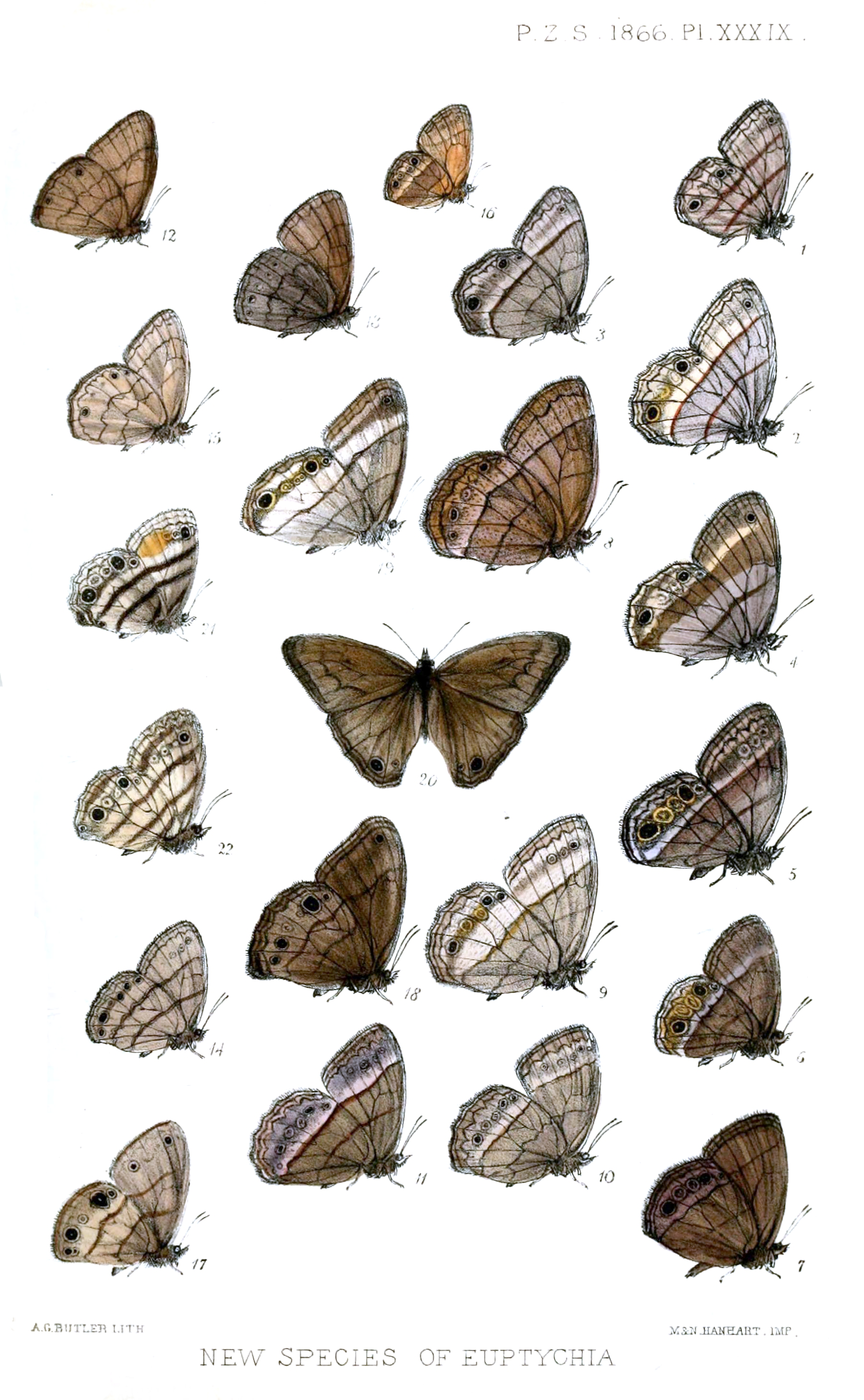 Euptychiina butterflies